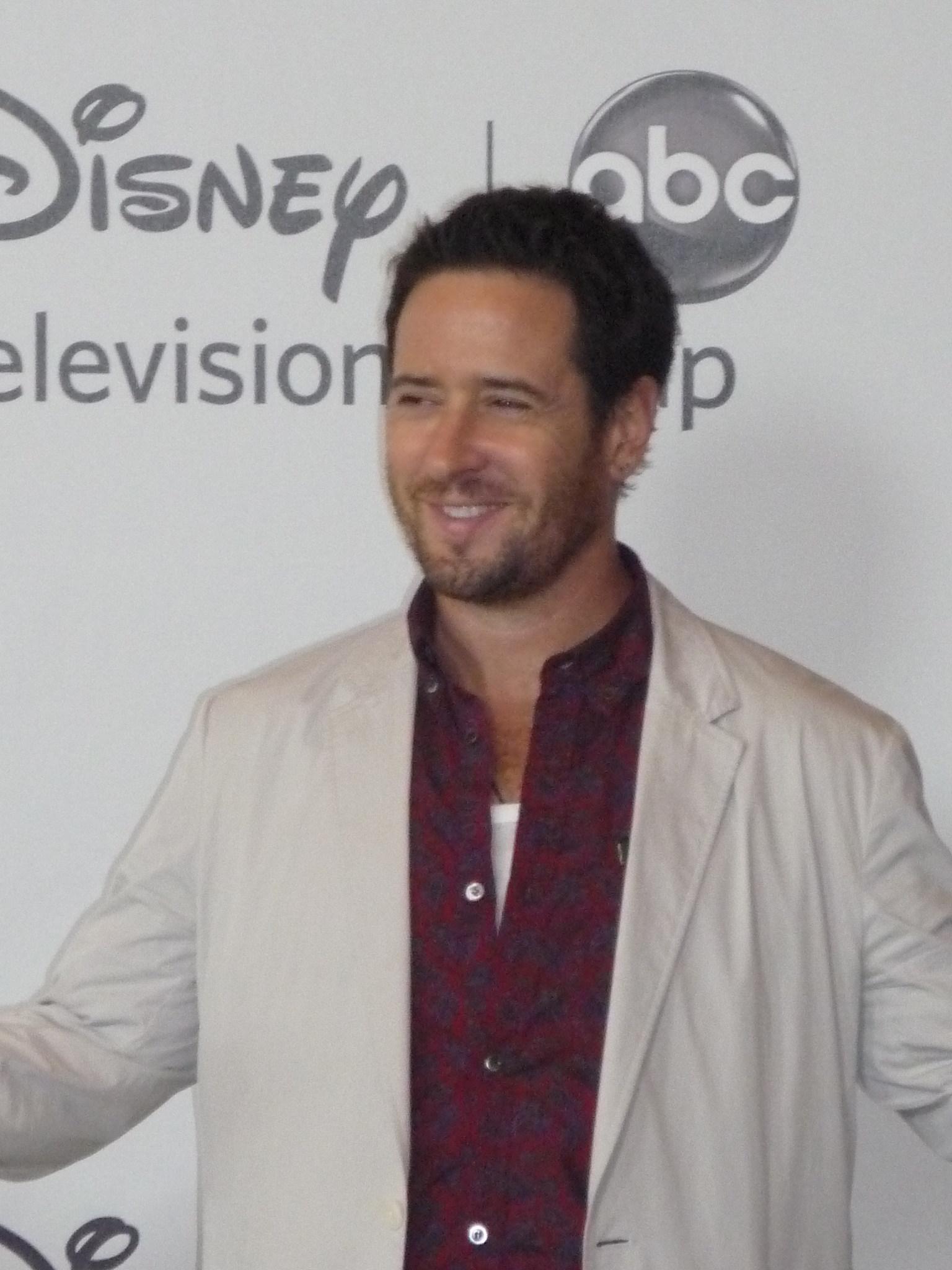 TCA 2010